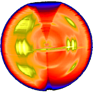 Fiber diffraction data after mapping. 3D visualization of the volume of reciprocal space in which diffraction data are available. Made from WaxsPPmapl.png by rotating the data about the meridian (vertical axis). Scattering intensity in logarithmic scale and pseudo color (light colors: high intensity).